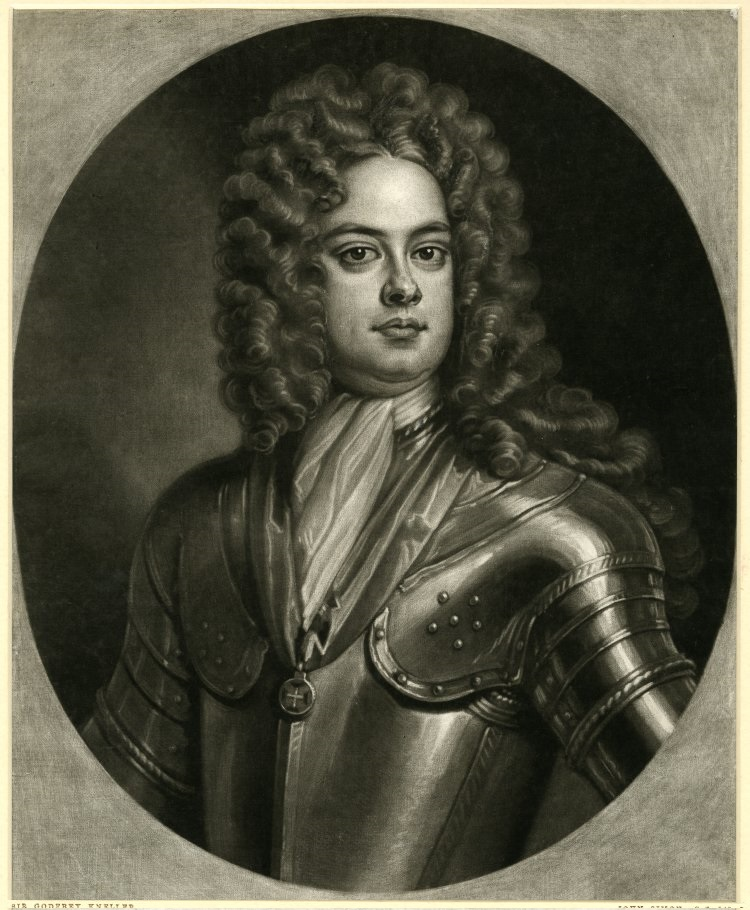 "Portrait of Count Tarouca seen almost half-length slightly to left within oval frame, head turned to right, eyes to front; wearing armour, cravat, medal and long, dark wig; proof before letters Mezzotint" Museum number1902,1011.4352 The 4th Count of Tarouca was ambassador to London in 1709. His name is variously spelled Joao Gomez da Silva. Image cropped: blank space for letters at bottom removed.